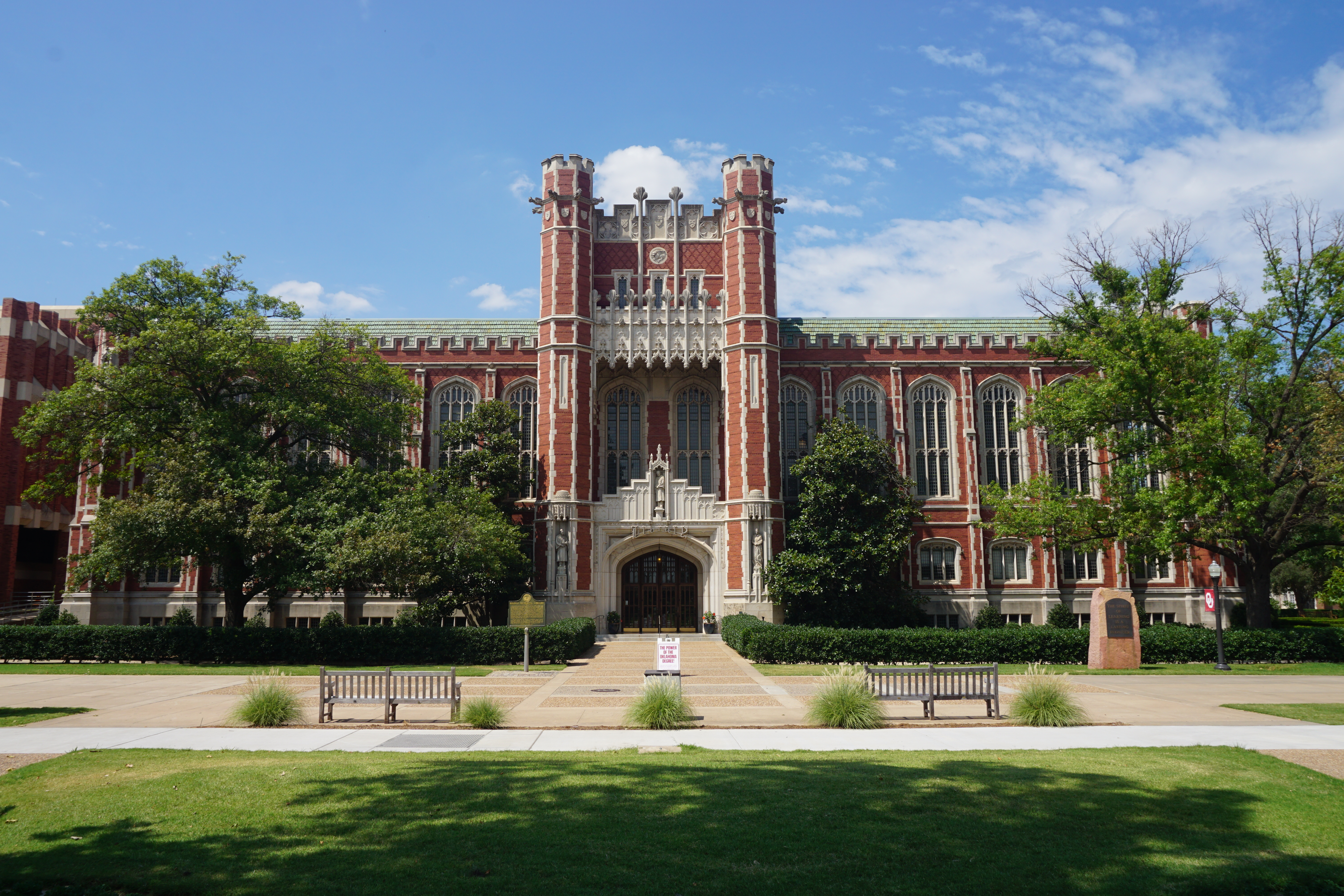 Bizzell Memorial Library on the campus of the University of Oklahoma in Norman, Oklahoma (United States).